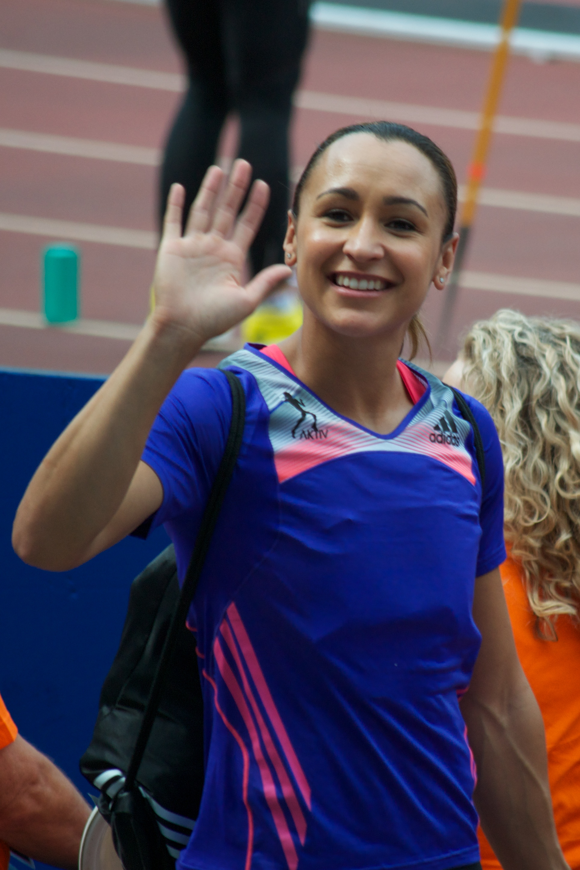 London 2013, her only top track meeting of the year.